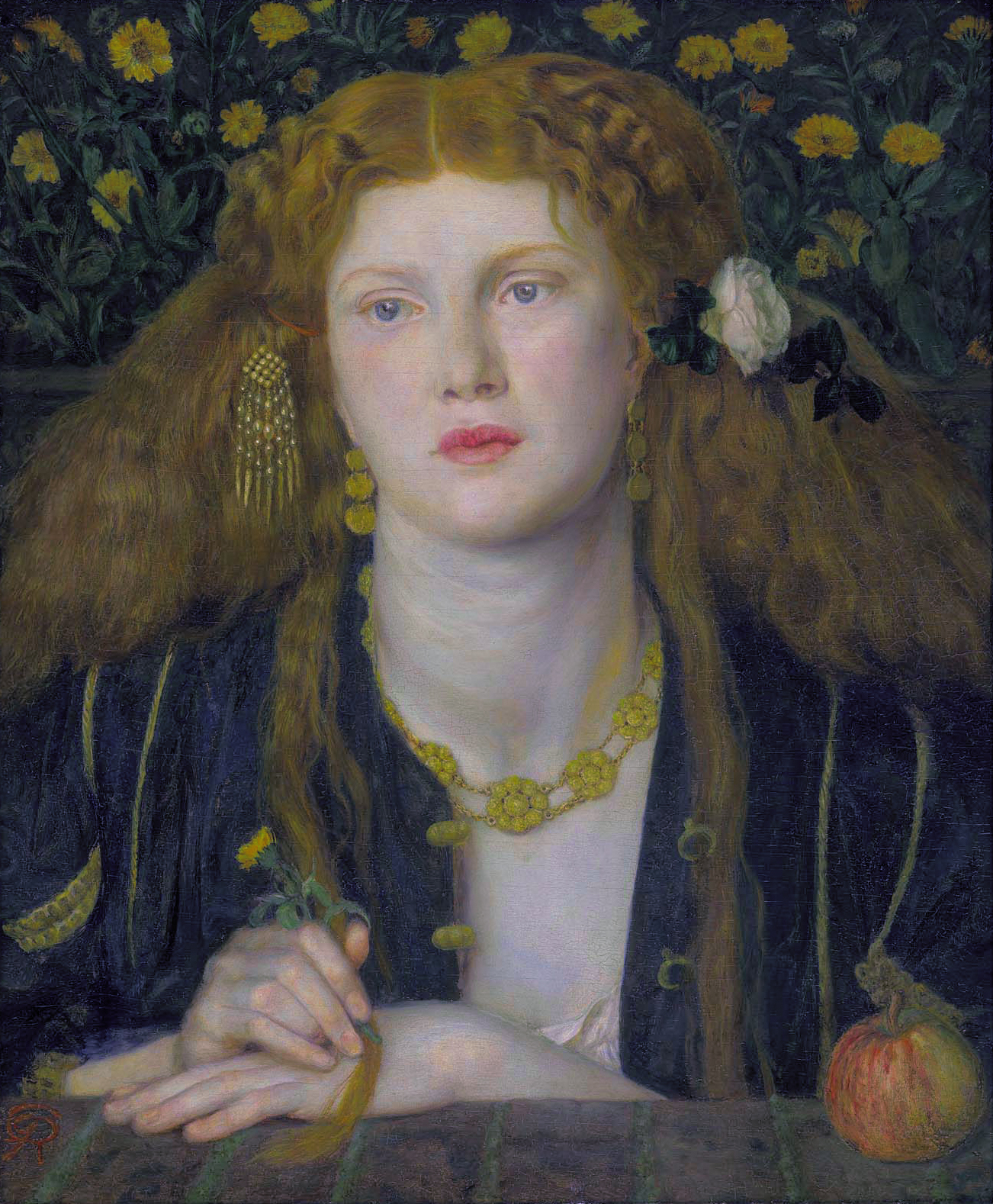 Bocca Baciata (Lips That Have Been Kissed) oil on panel 32.1 x 27.0 cm signed b.l: G C D R 1859